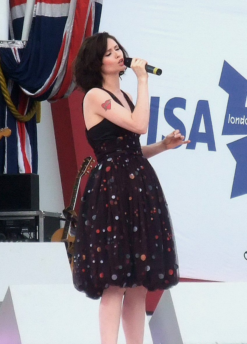 Sophie Ellis Bextor plays London 2012 Party in The Mall, London